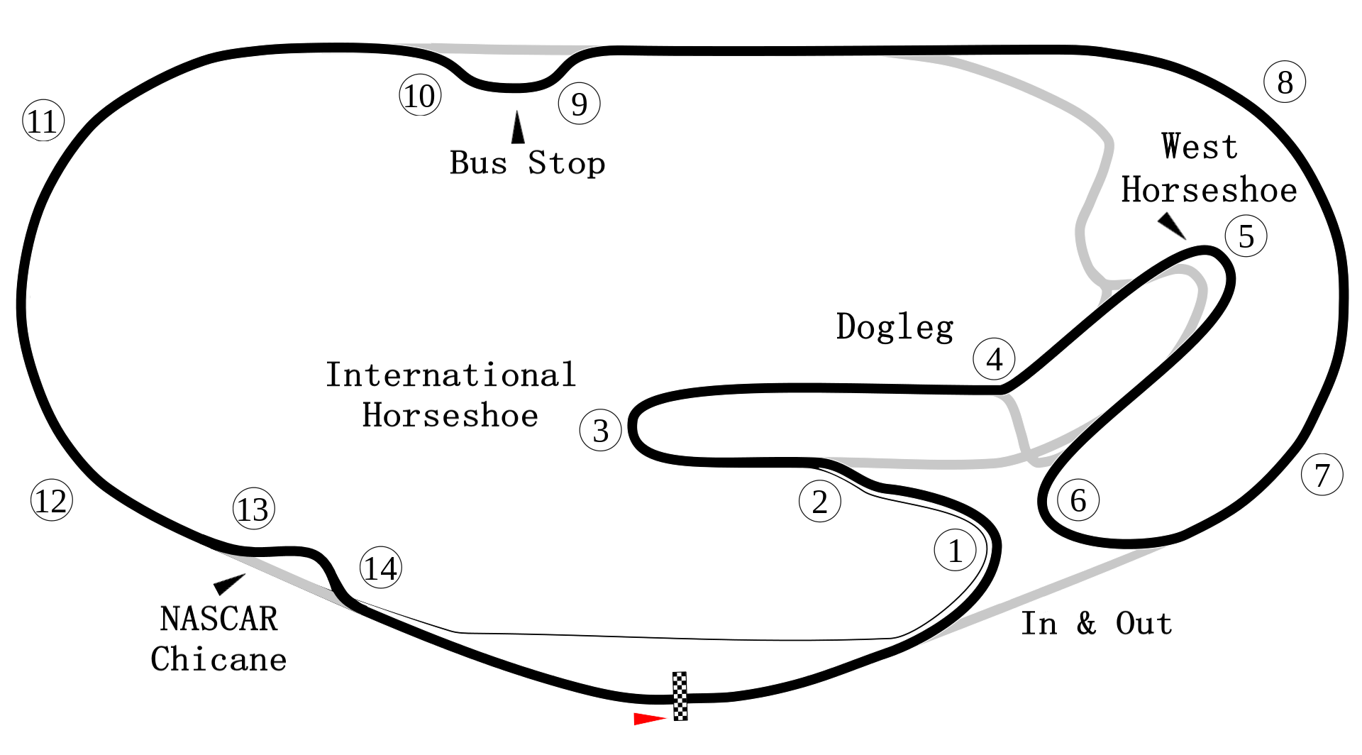 NASCAR's circuit for the 2020 GO BOWLING 235 at Daytona International Speedway, Daytona Beach, FL, USA. Race was brought on by the cancellation of the Watkins Glen race due to the COVID-19 Pandemic. Corner Numbers and Names are based off of NASCAR's official Track Map Photos.